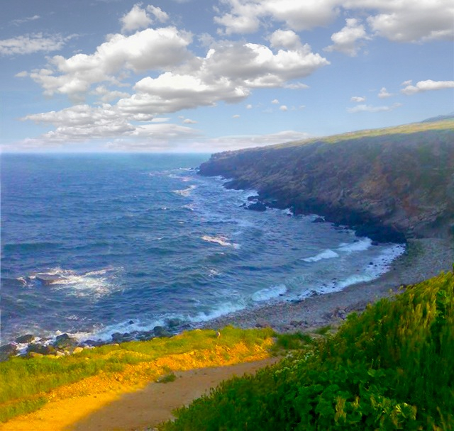 Snakes island, Black Sea, Ukraine. Drawing since some photographies.